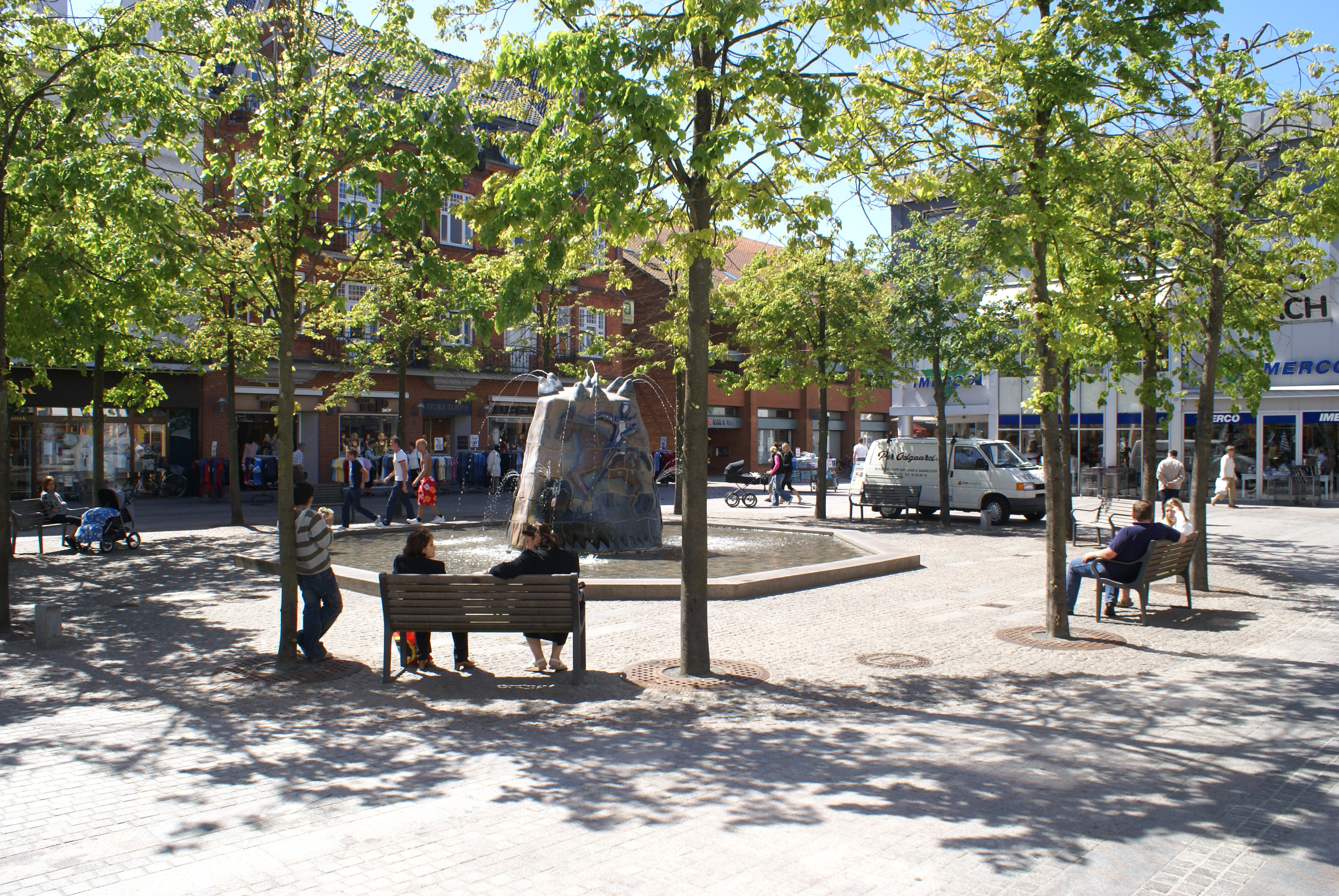 A picture of Holstero pedestrian street